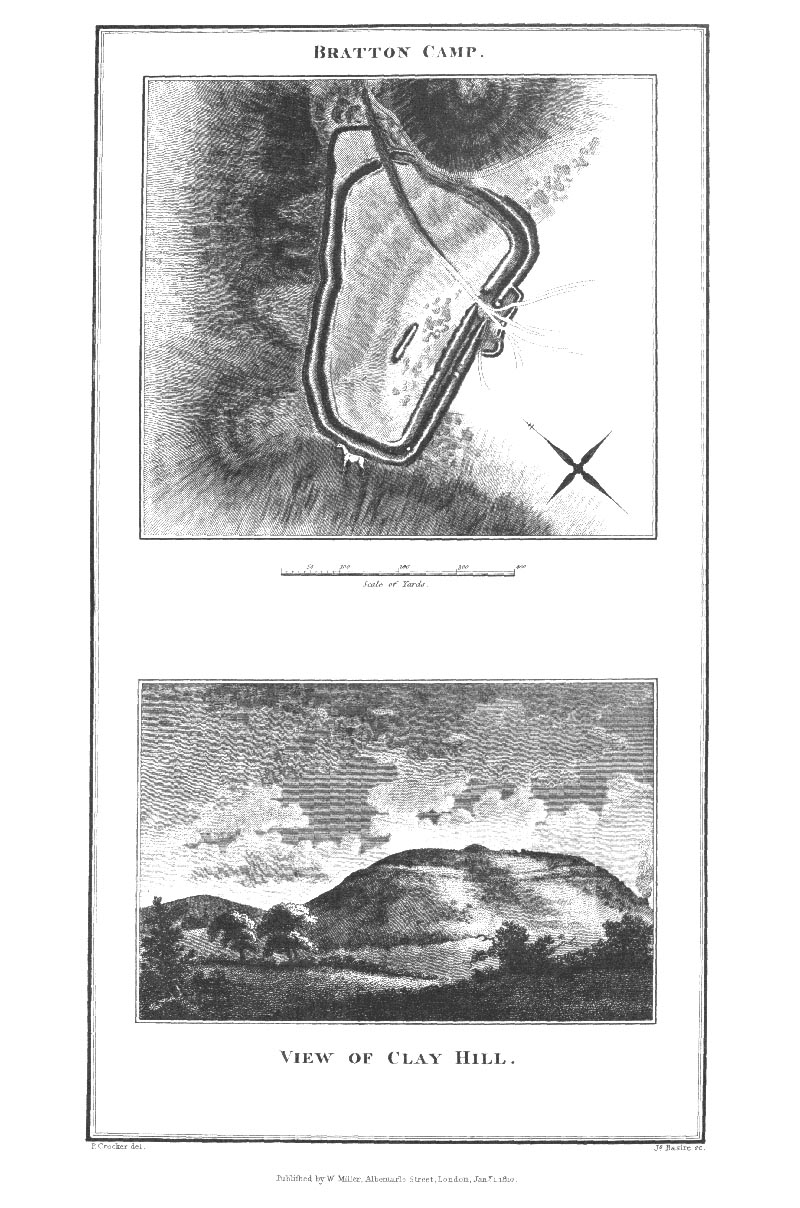 A pencil sketch of Bratton Camp